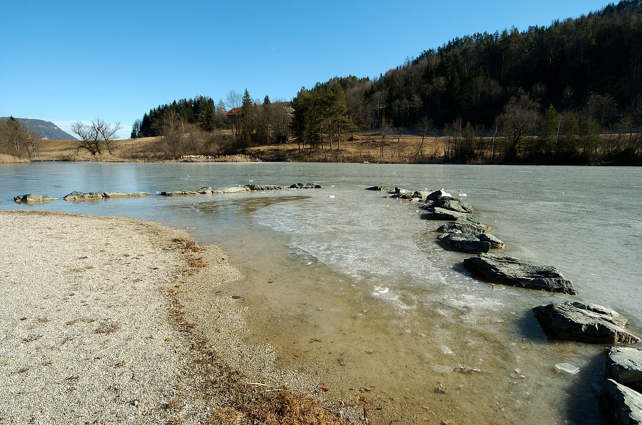 Frozen pond at the floodplain forest in Trieblach, municipality Sankt Margareten im Rosental, district Klagenfurt Land, Carinthia, Austria, EU